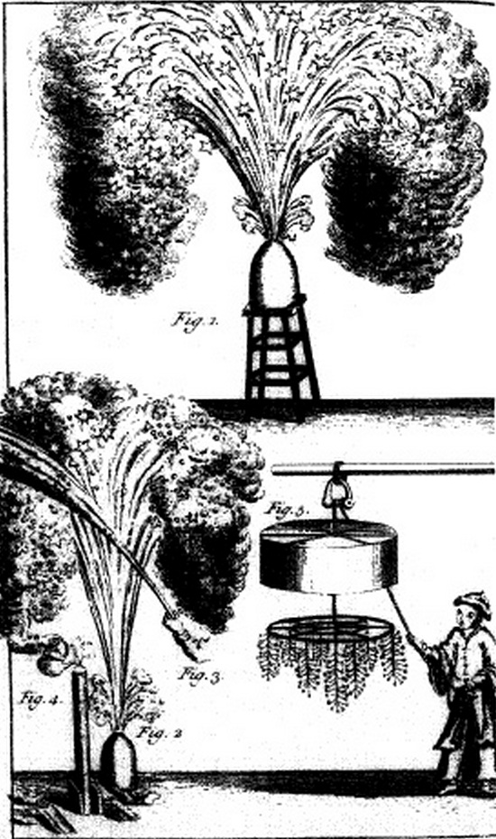 An illustration of Chinese fireworks from an English abstract of the text by the French Jesuit Pierre Nicolas d'Incarville.